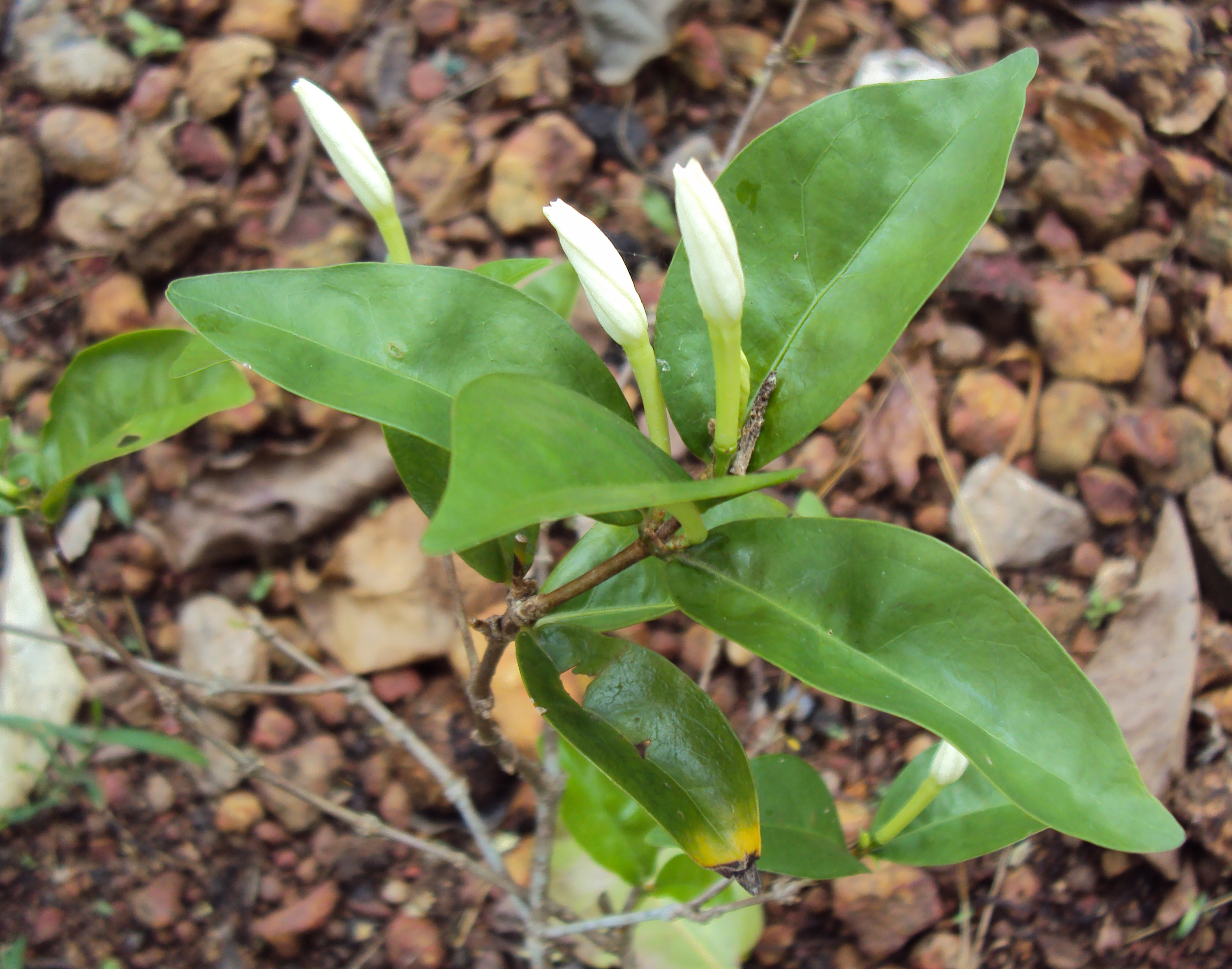 പുഷ്കരമുല്ല. Taken from Botanical garden of Kariyavattam University Campus, Trivandrum.